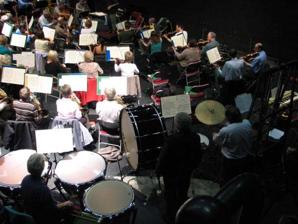 Rehearsal